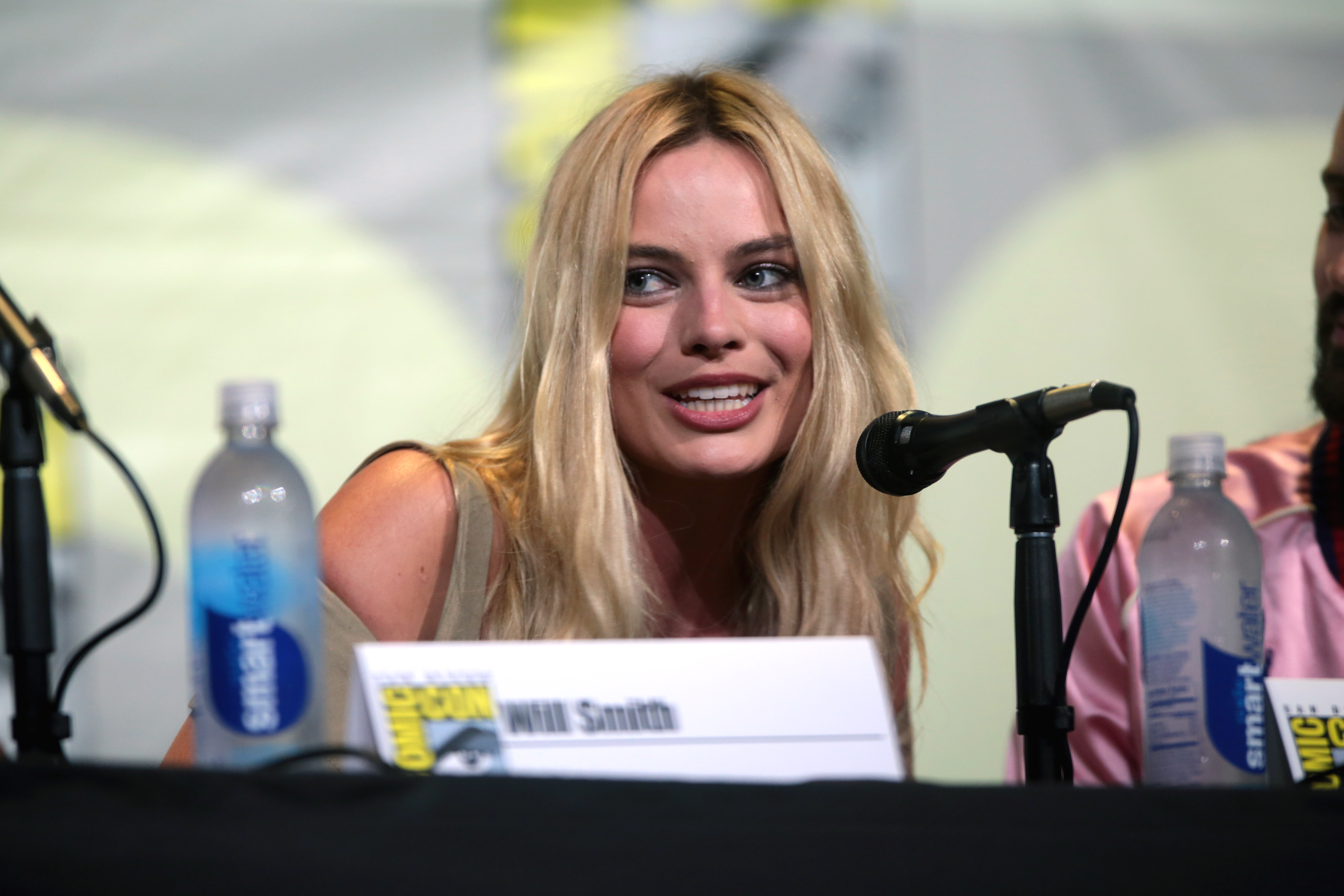 Margot Robbie speaking at the 2016 San Diego Comic Con International, for "Suicide Squad", at the San Diego Convention Center in San Diego, California.